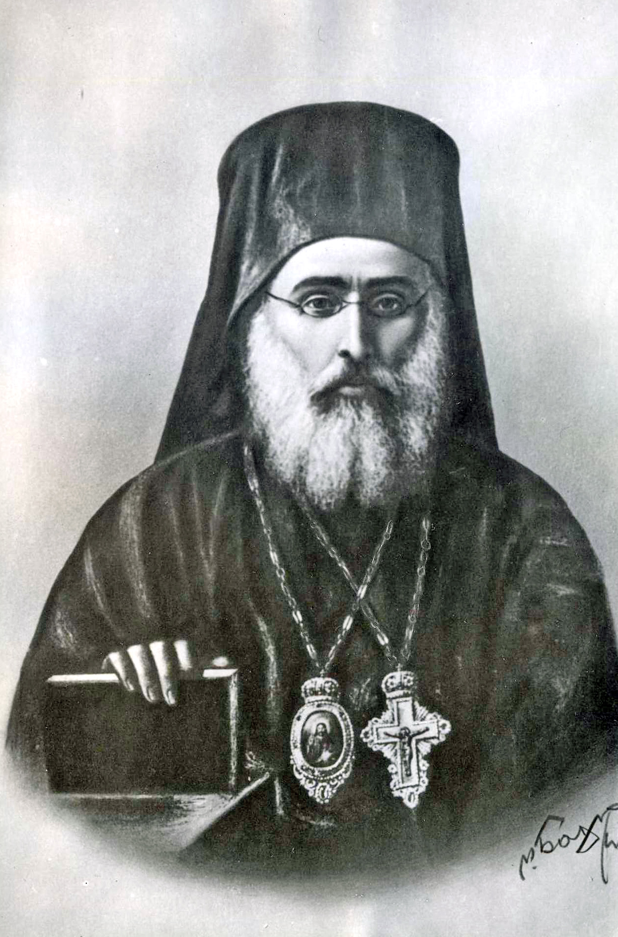 Paisii, Bishop of Plovdiv